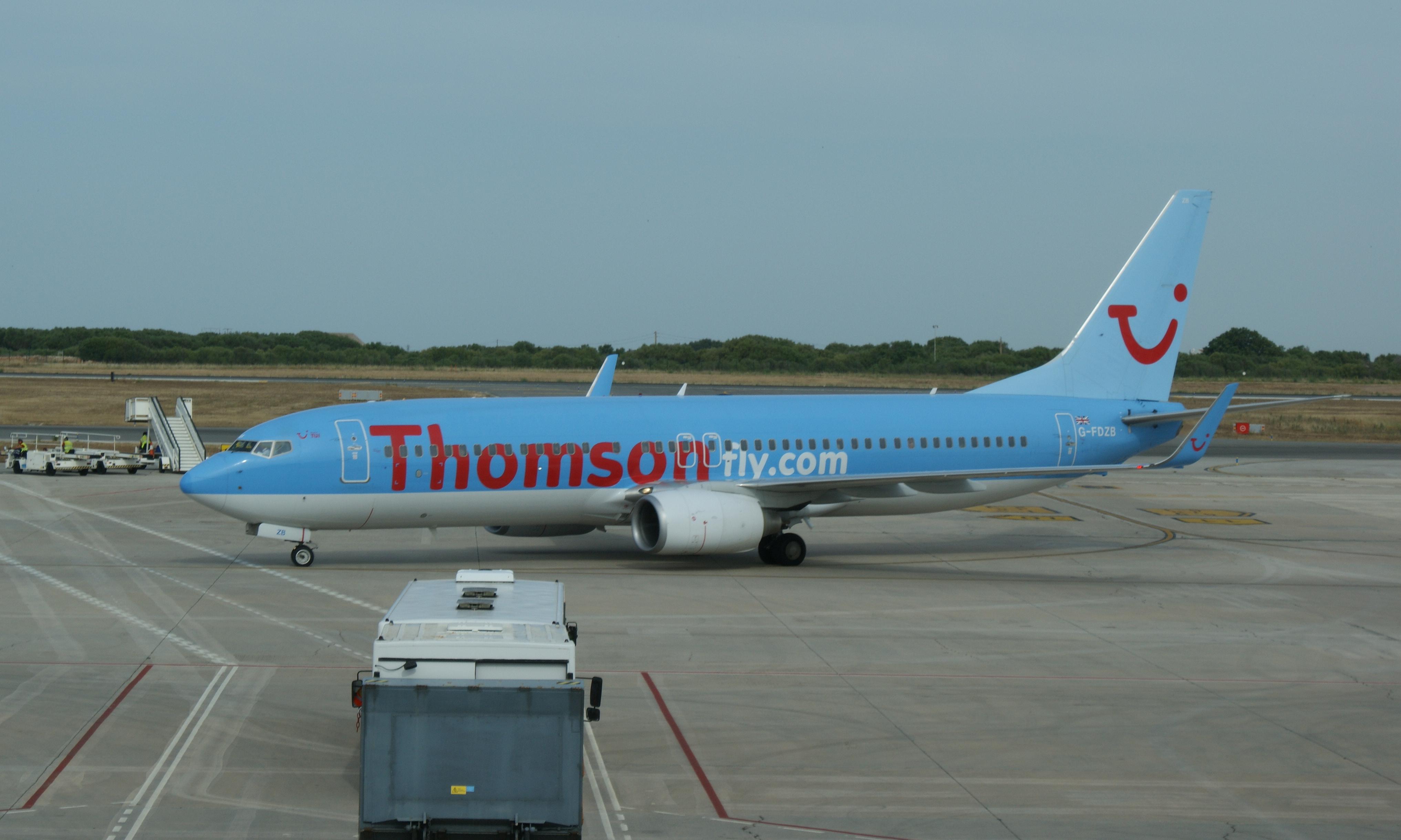 Boeing 737-800 of Thomson at Menorca Airport, 05/12.